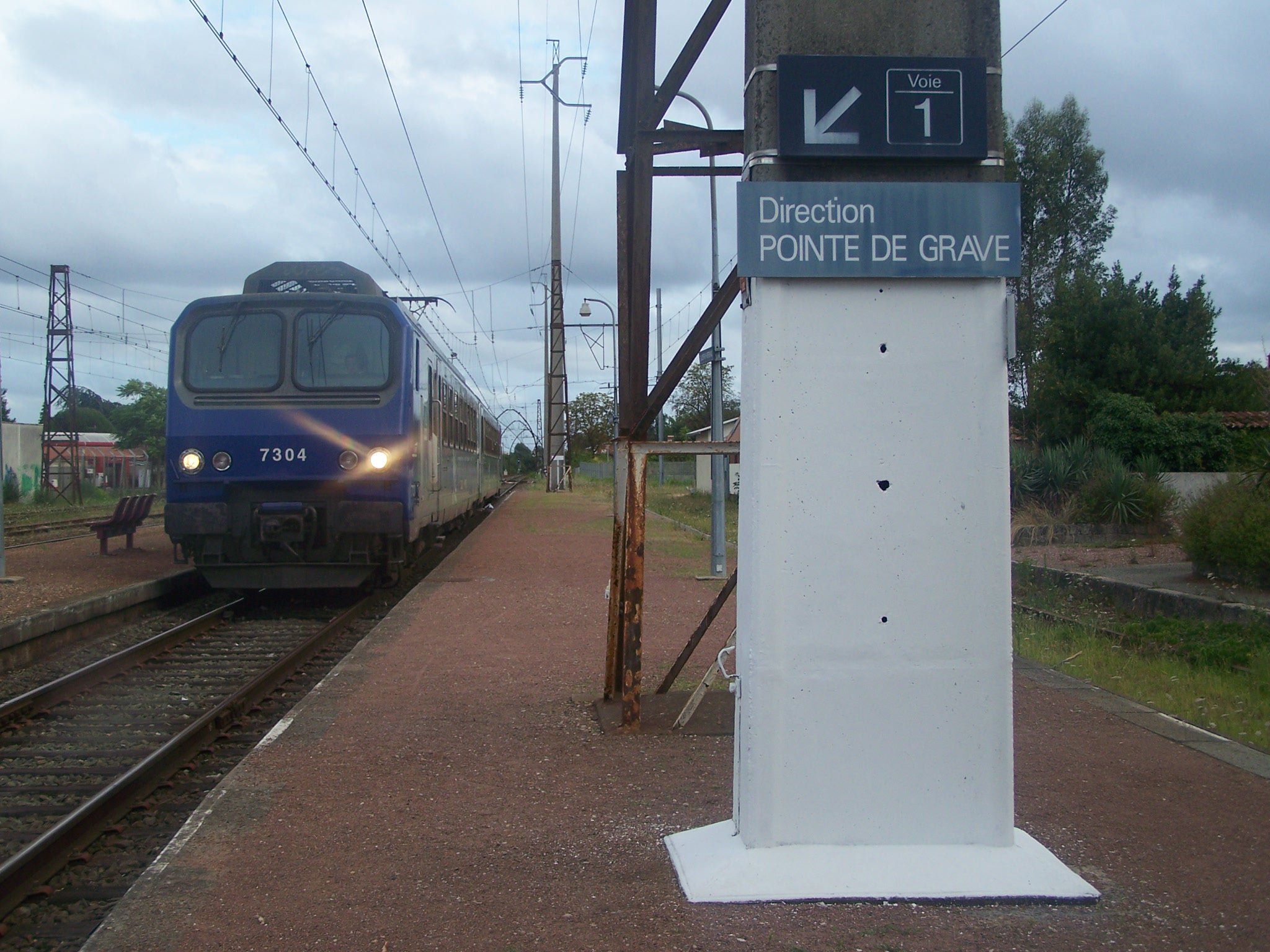 French regional train bound for le Verdon sur Mer is stopping at Caudéran-Mérignac station, near Bordeaux in the department of Gironde.